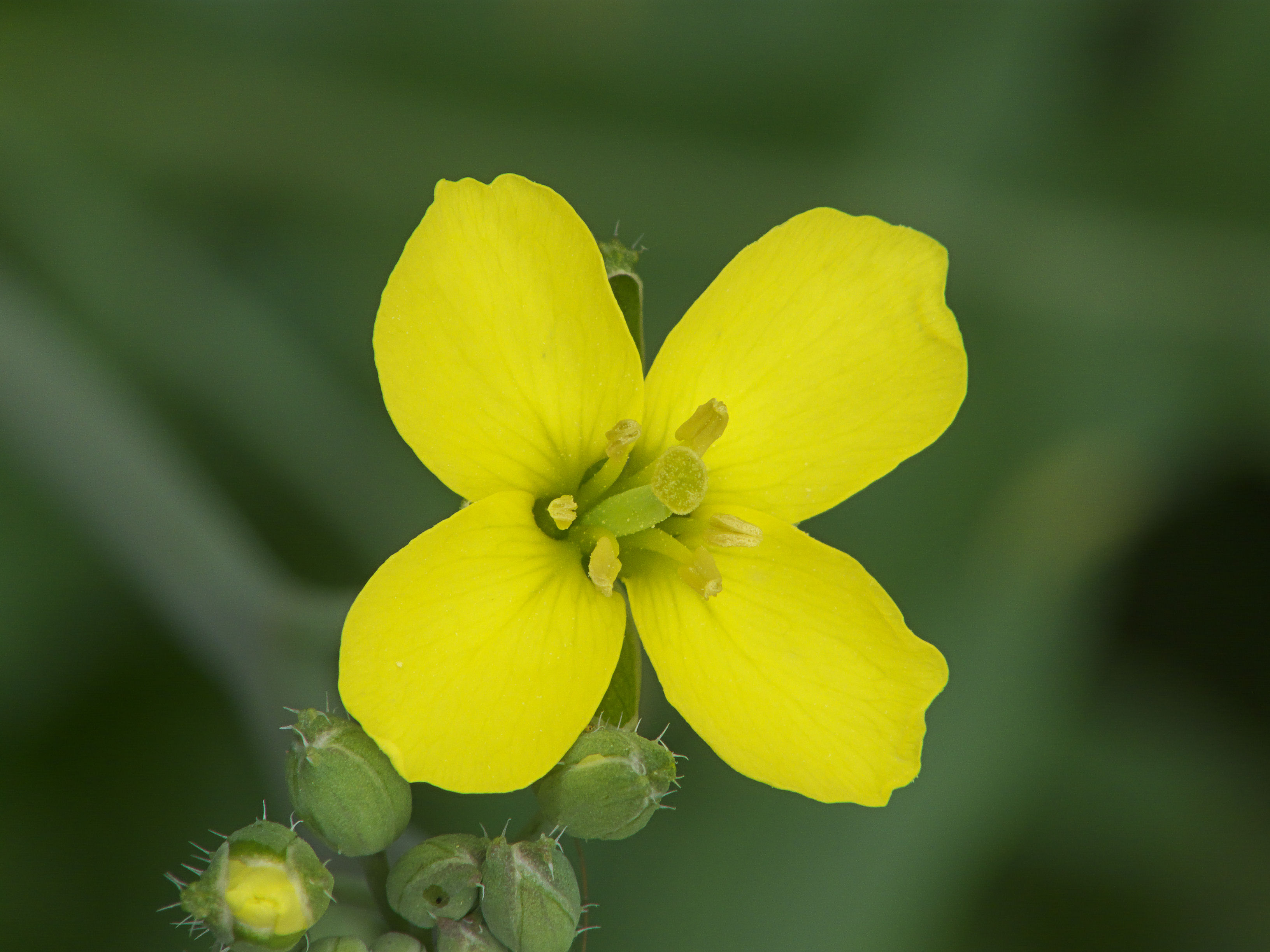 Diplotaxis tenuifolia flower